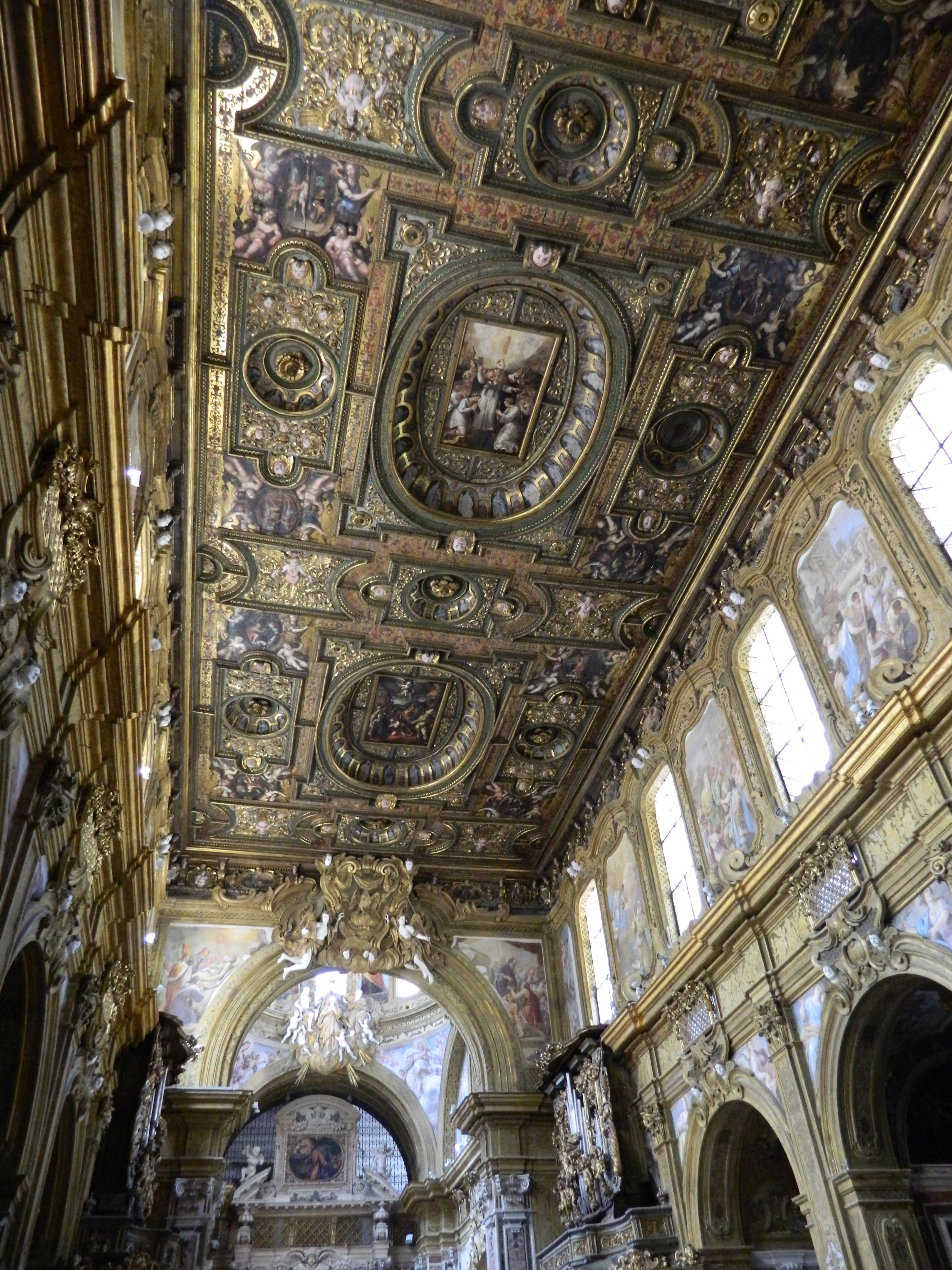 Chiesa di San Gregorio Armeno (Napoli) - Interno